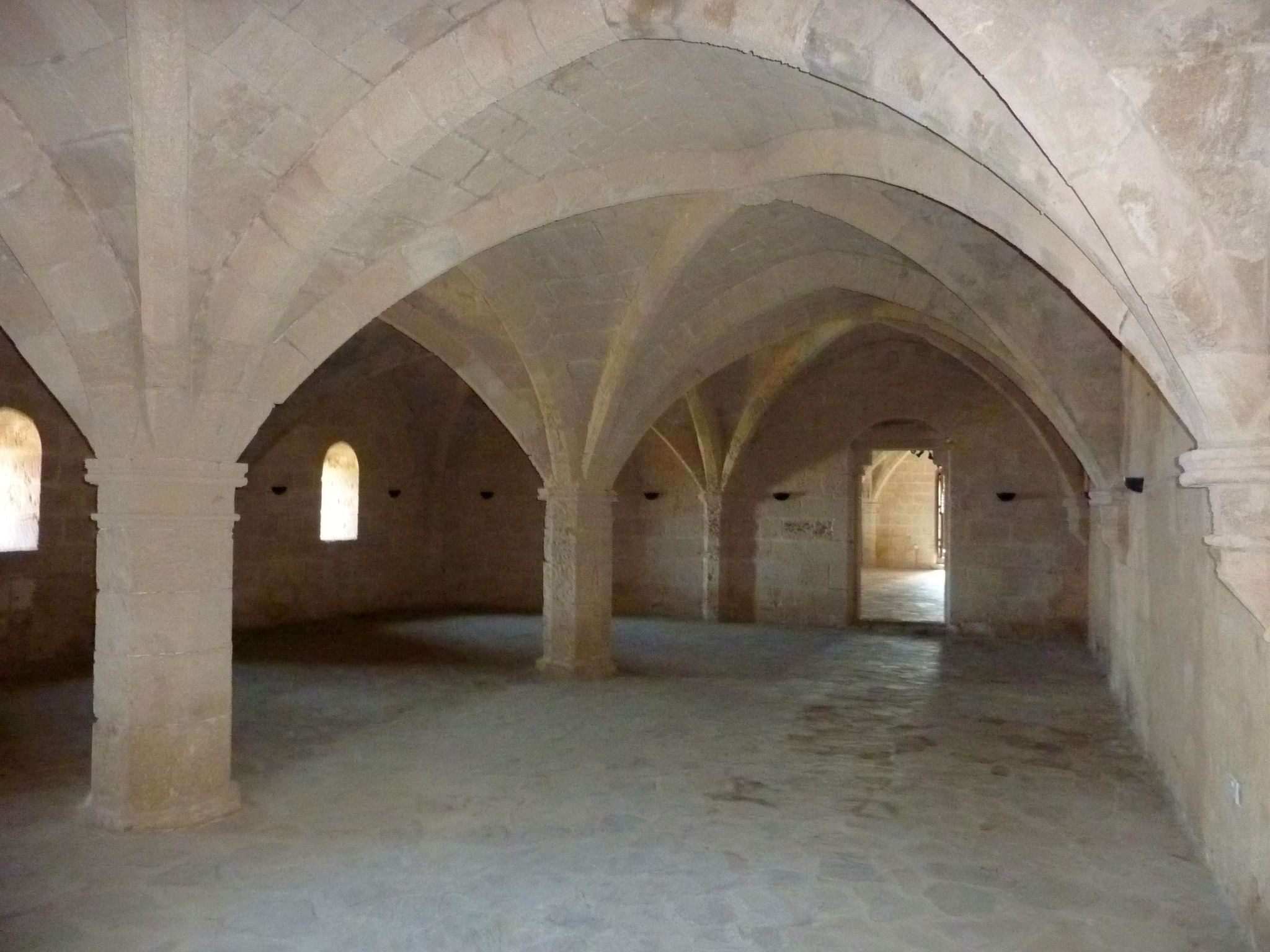 Bellapais Monastery - Cellarium